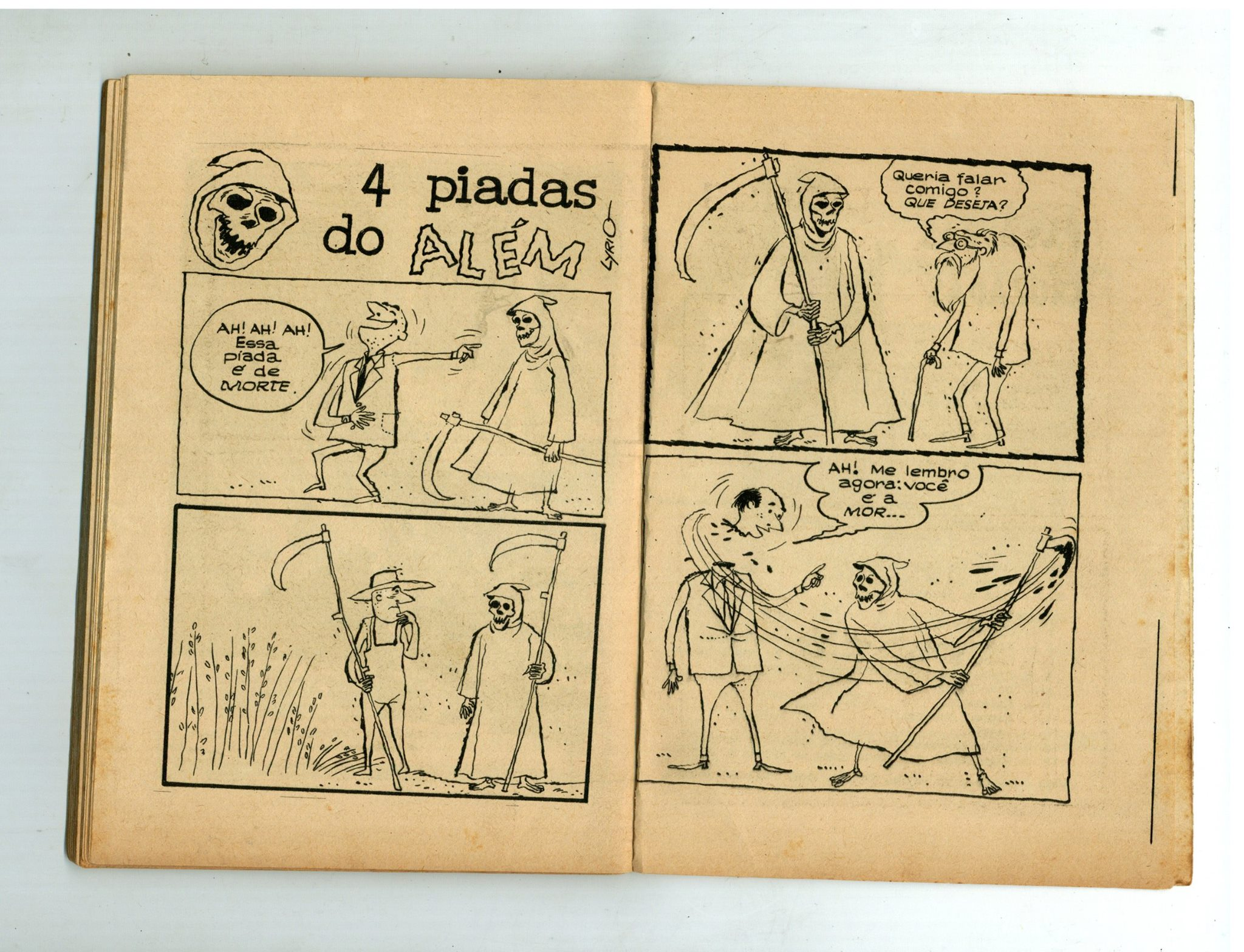 Piadas